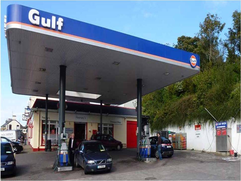 Gulf Filling Station dromore West